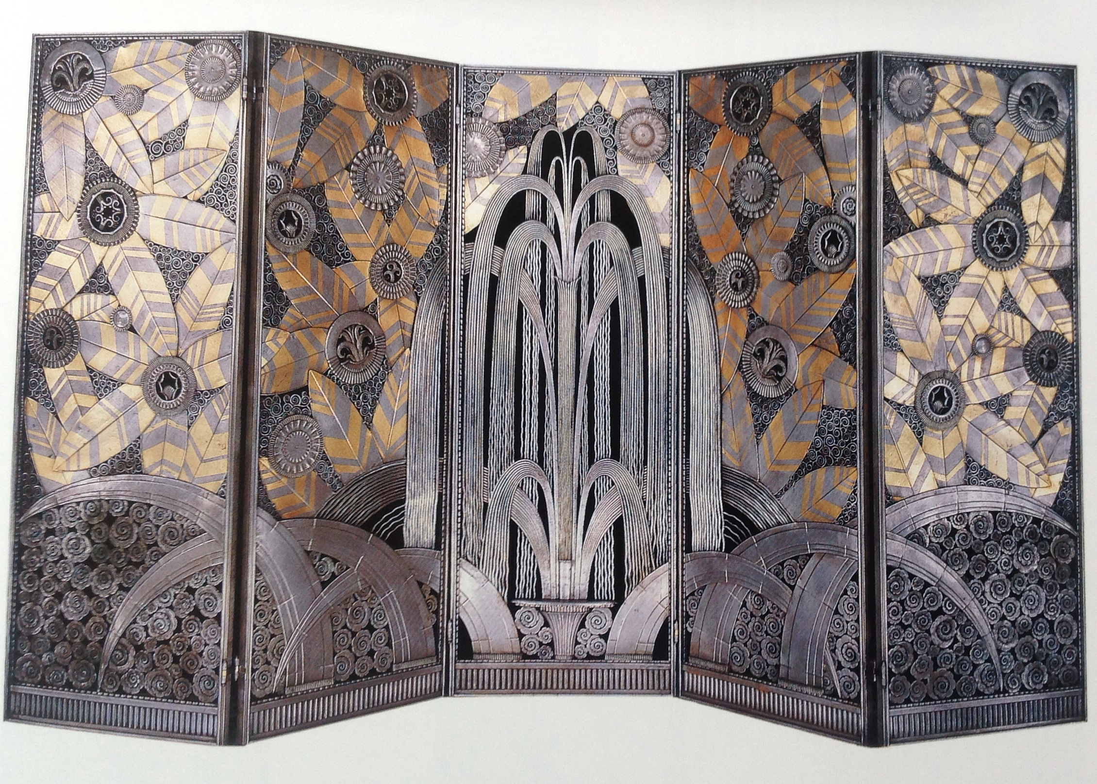 Screen of iron and copper by Edgar Brandt called "Oasis" displayed at the 1925 Paris Exposition of Decorative Arts